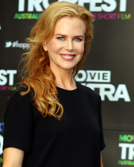 Nicole Kidman at the Movie Extra Tropfest 2012.